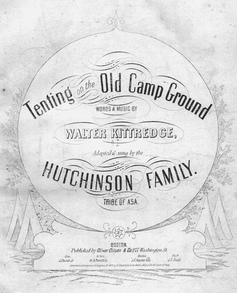 Cover of sheet music for "Tenting on the Old Camp Ground" words and music by Walter Kittredge, Boston: Oliver Ditson & Co., 1864